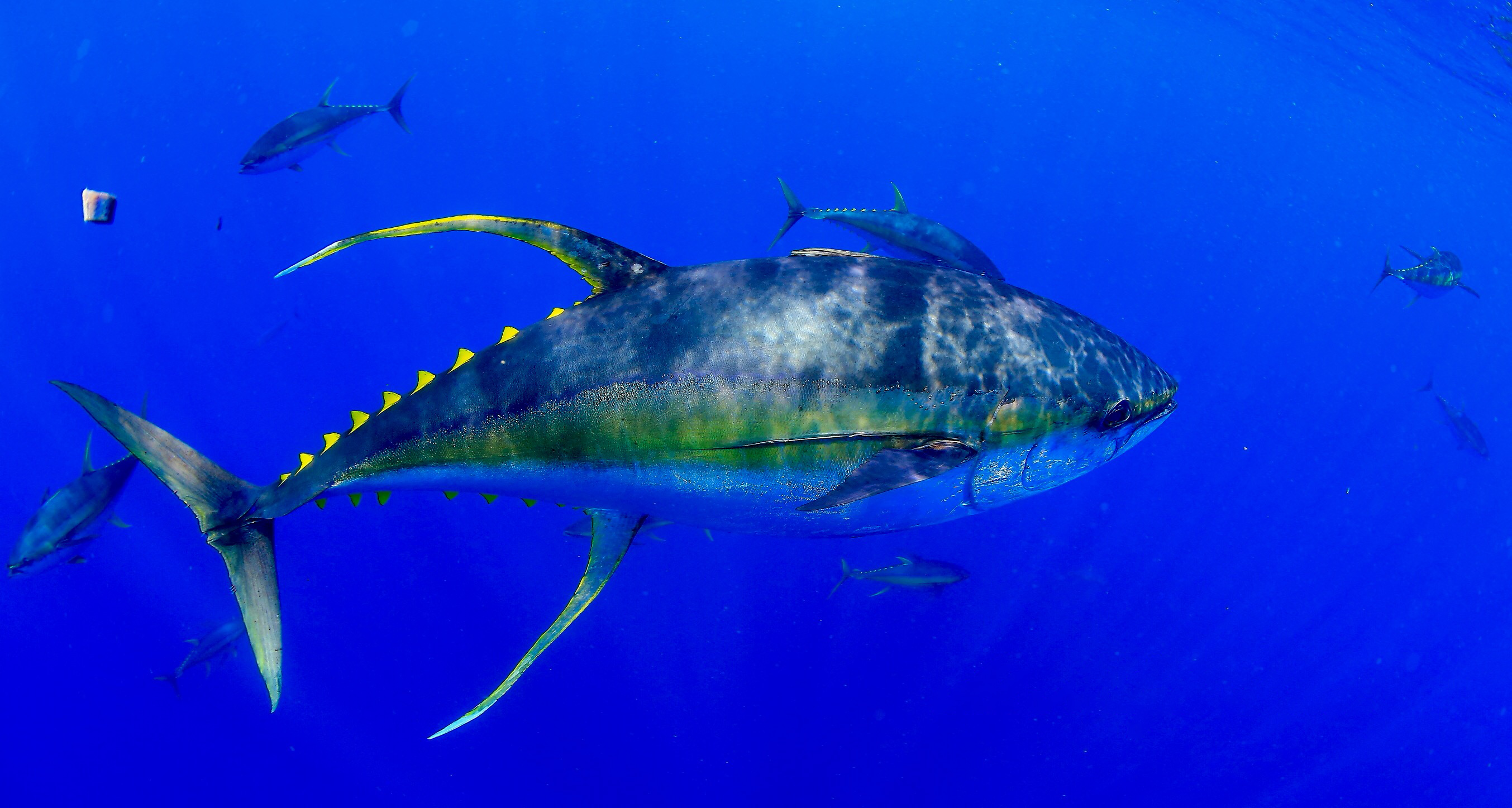 A huge yellowfin tuna Al McGlashan filmed in the Atlantic